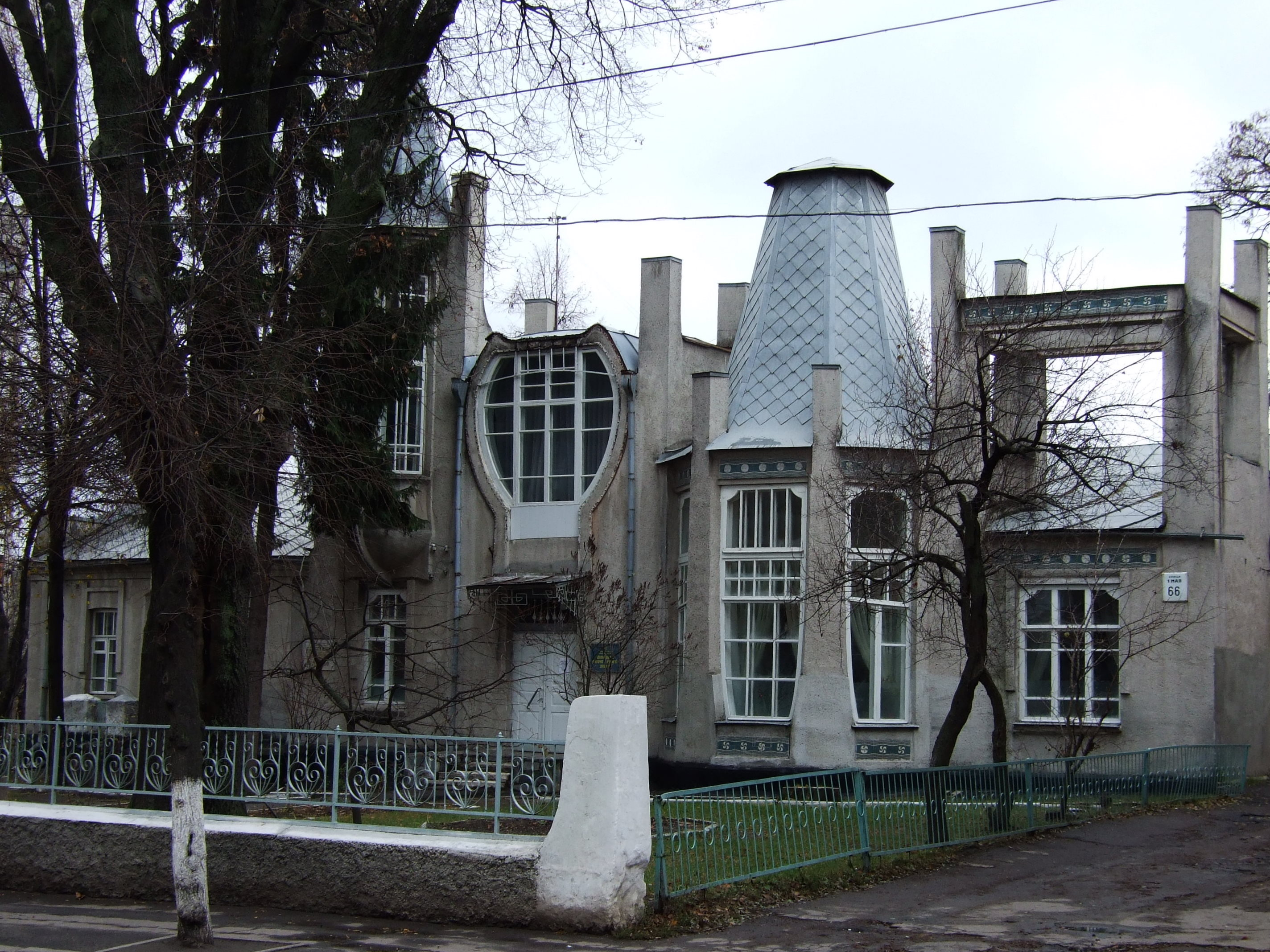 Vinnytsya, 1 Maya Street No. 66. The house of patron L. Dlugolentskij was built at the beginning of the 20 cen. Now it is known as a house of art school and is an annex to the old dwelling house of 20 cen. The building even nowadays is a bright example of the free usage of decorative elements which are typical for the modernist style.